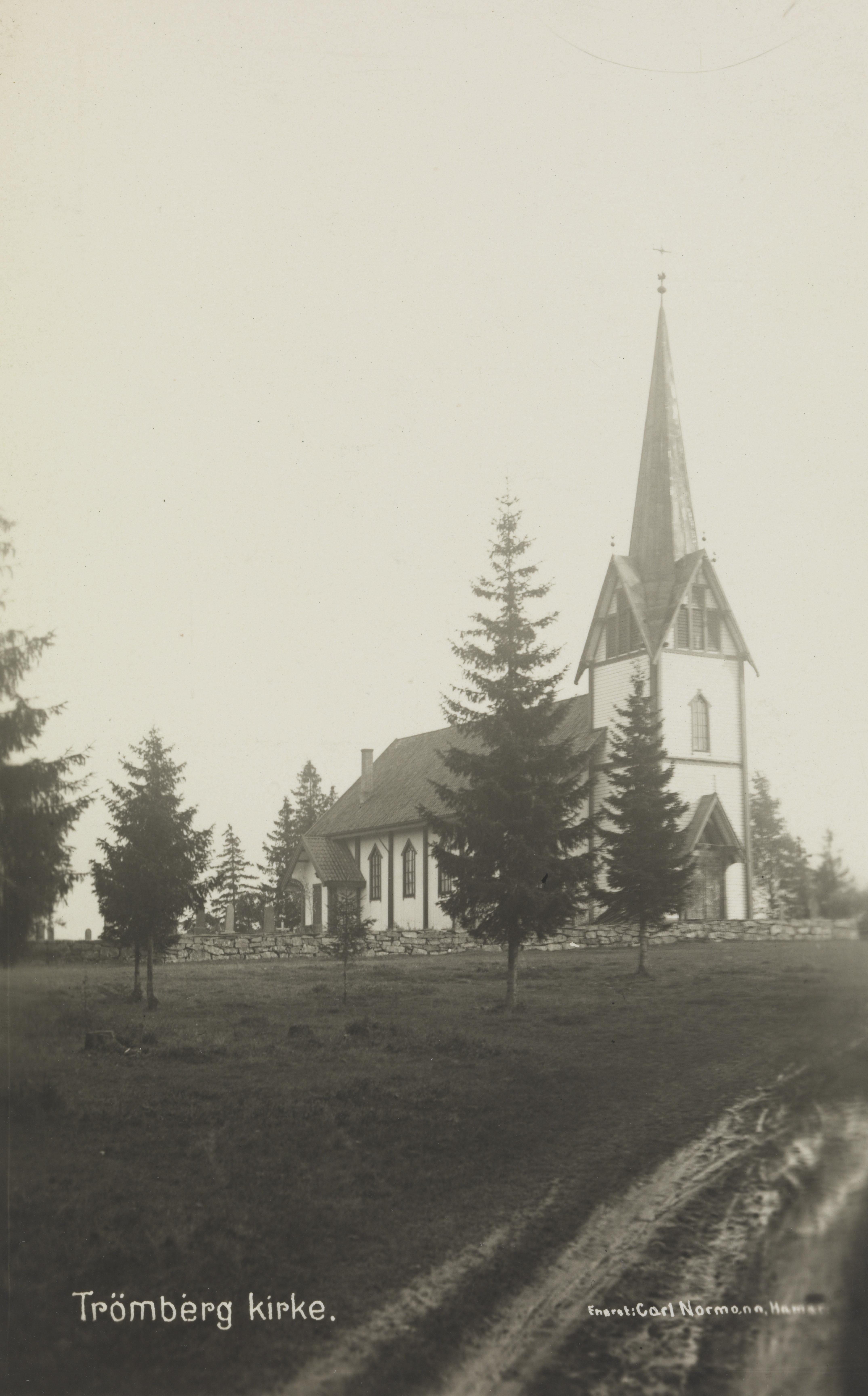 Trømborg church, Eidsberg, Østfold, Norway. Old B&W postcard. Image from the Nasjonalbiblioteket collection